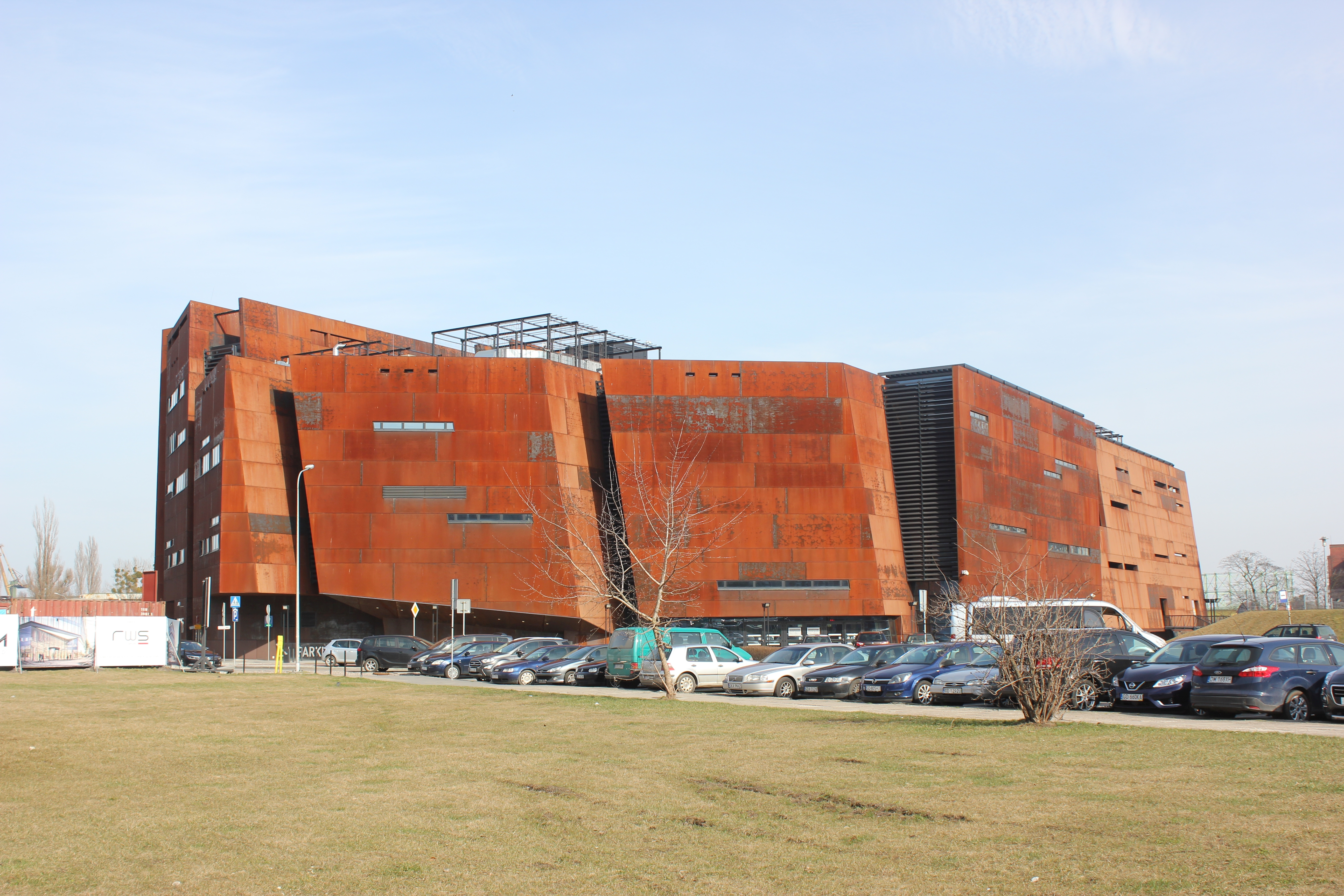 Gdańsk - European Solidarity Centre